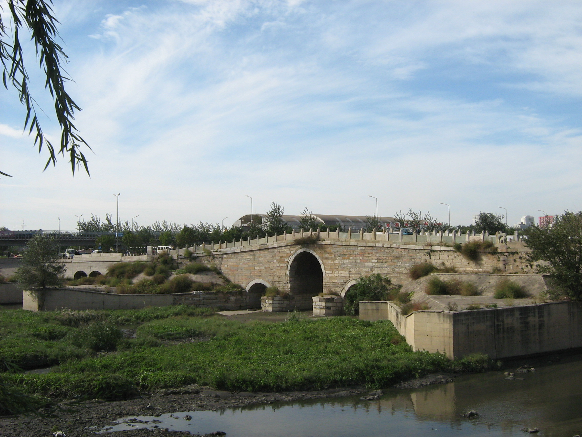 Baliqiao (north side), Tongzhou District, Beijing, China